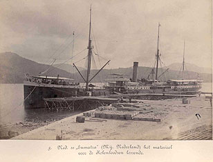 The SS Sumatra at the quay of Sabang circa 1819.